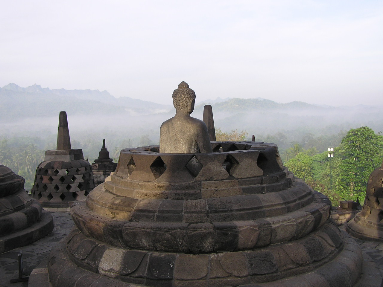 A buddha statue in a stupa of Borobudur, central Java, Indonesia.